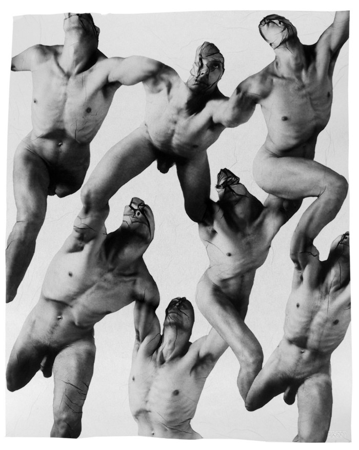 Photograph from Michal Macků